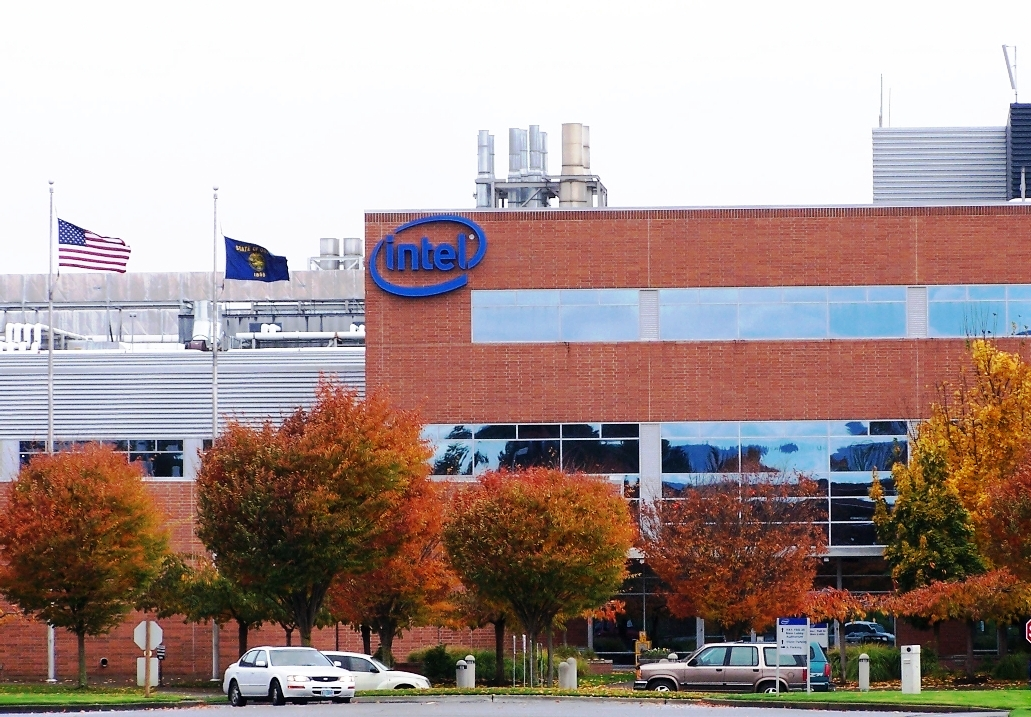 Hillsboro, Oregon Ronler Acres Intel site.